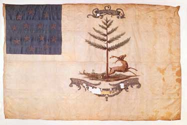 This flag was probably made in Boston, Massachusetts, and was presented to a local militia company known as the “Bucks of America” sometime around the close of the American Revolution. Paint on silk (flag), circa 1785-1786 91 cm x 122 cm